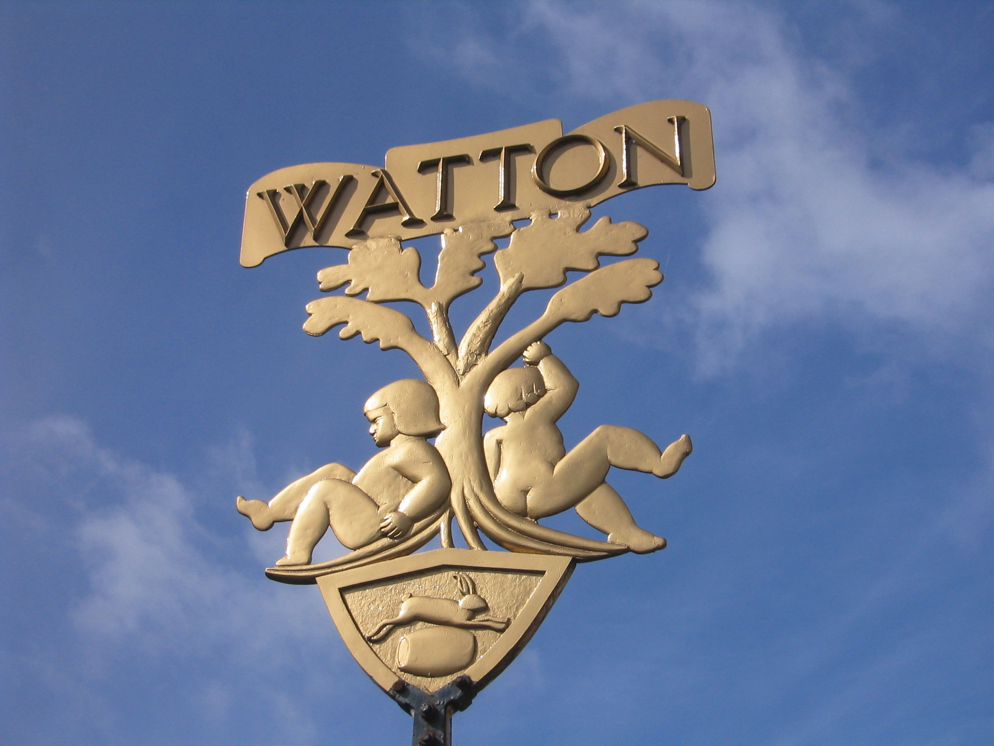 Deben Dave 16:52, 2 September 2007 (UTC)